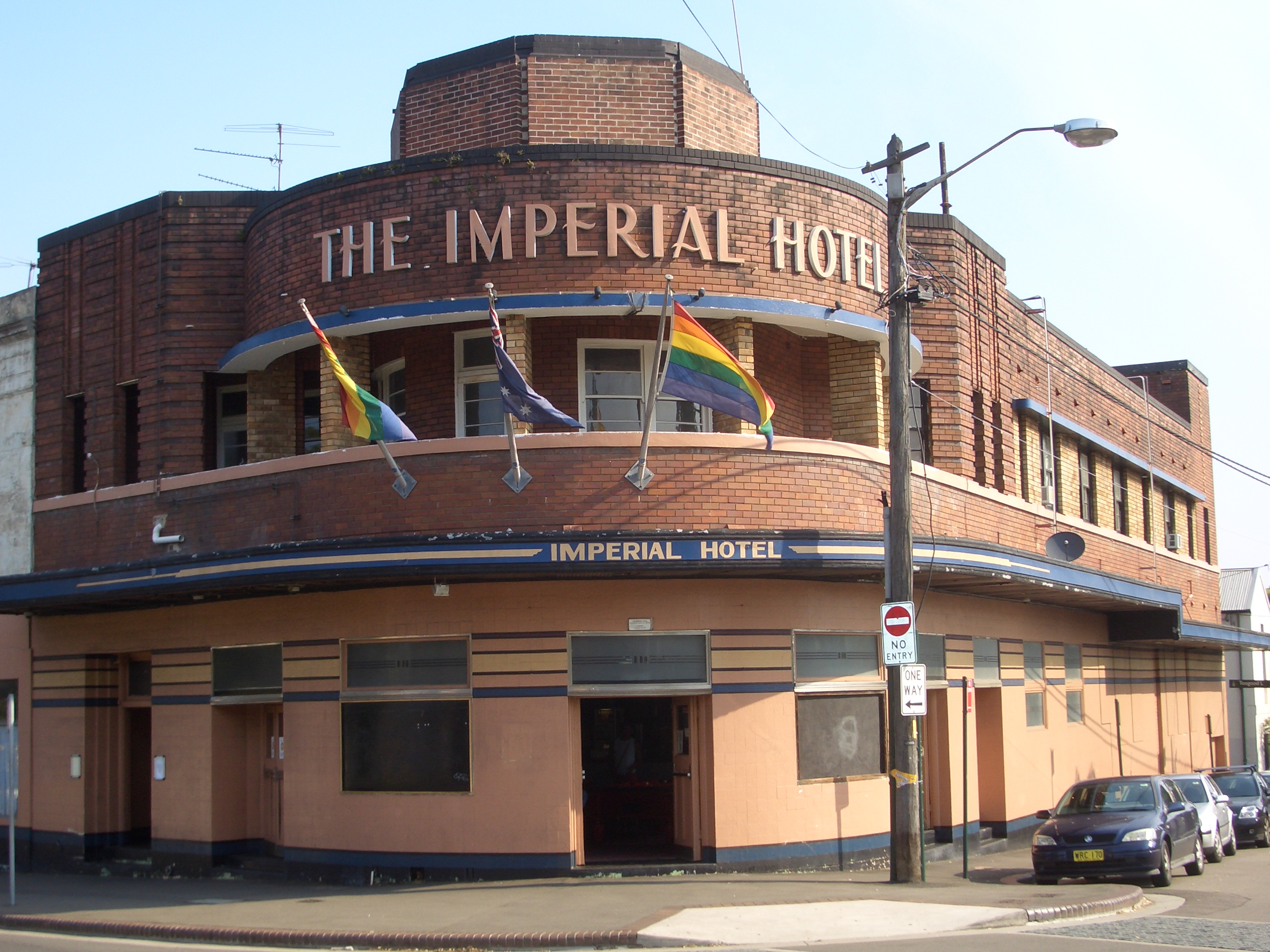 The Imperial Hotel Erskineville in Sydney, Australia, a well-known gay nightlife venue